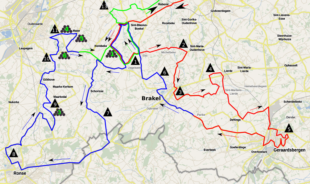 Circuit Het Nieuwsblad 2017, part 2 of the circuit. Reference: Roadmap version 11/11/2016, consulted on official website on 28/01/2017